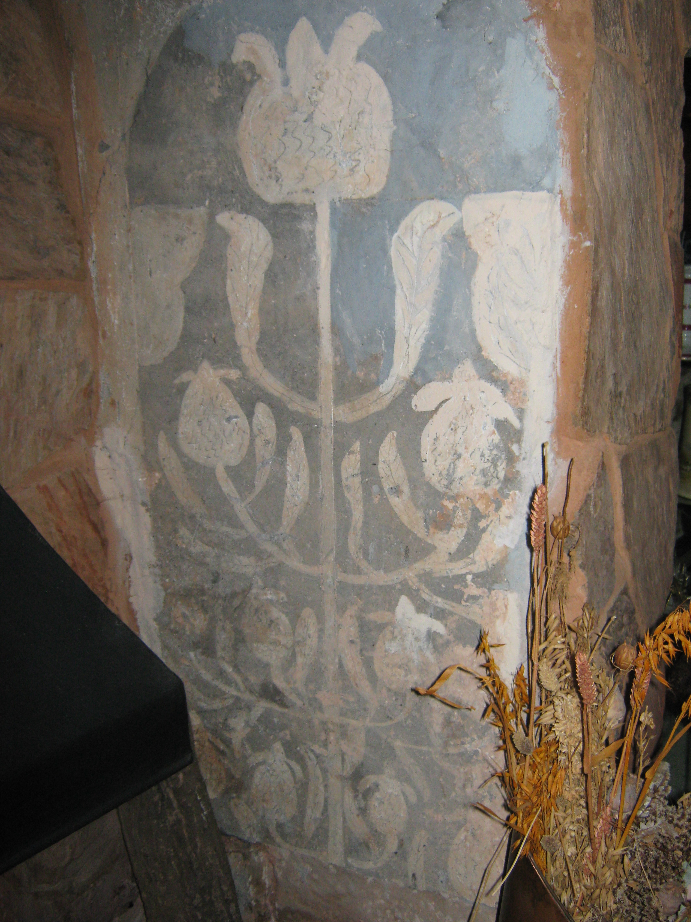 Plast-of-Paris work at Gulliford Farm